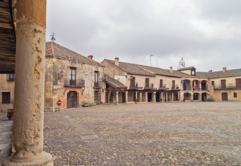 Plaza mayor de Pedraza.